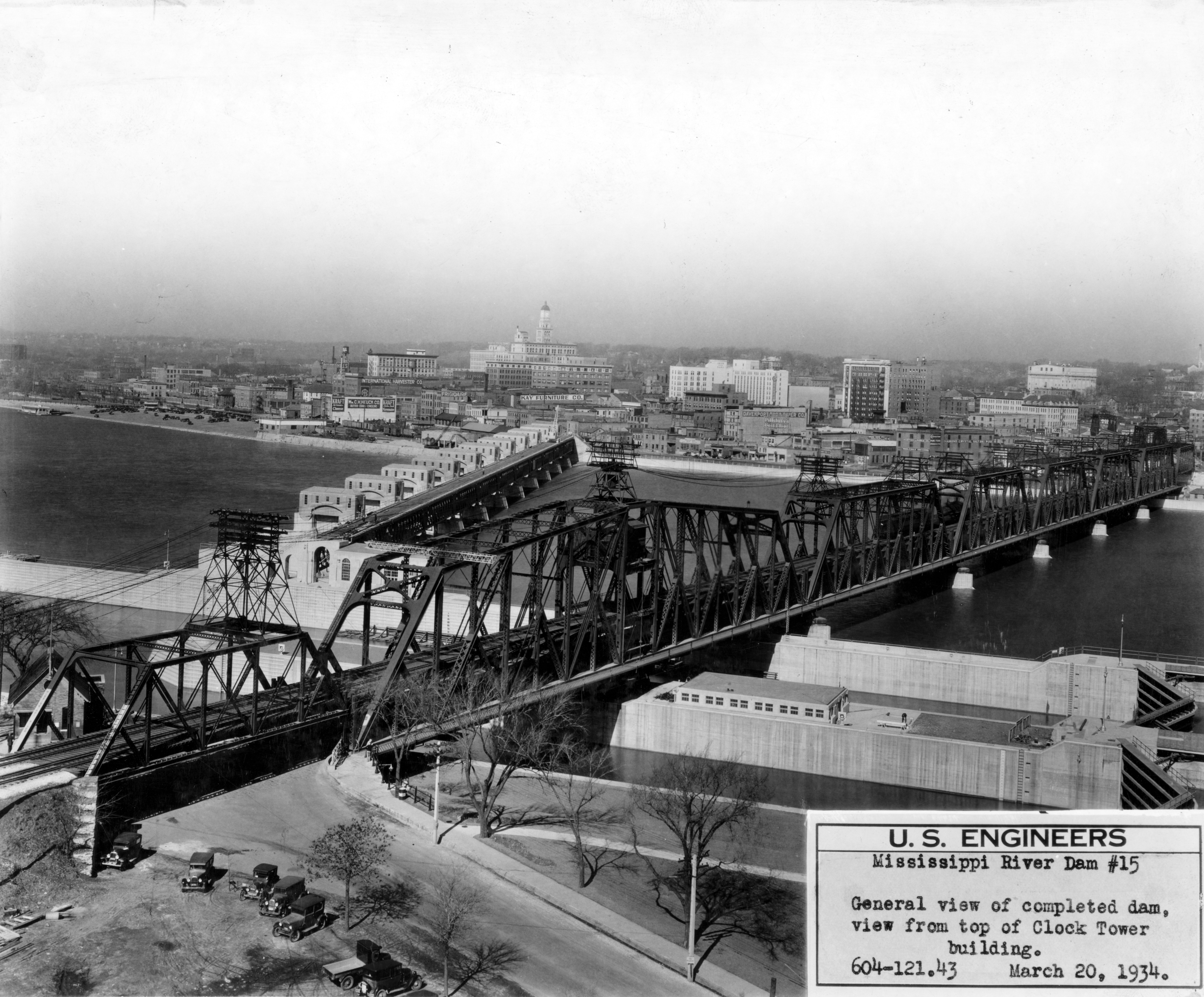 TITLE: Mississippi River dam #15, general view of completed dam, view from top of Clock Tower building SUMMARY: Photograph shows dam across the Mississippi River and Davenport, Iowa. The Government bridge, which carries railroad, automotive, and pedestrian traffic, is in the foreground. The Davenport city skyline is in the background.